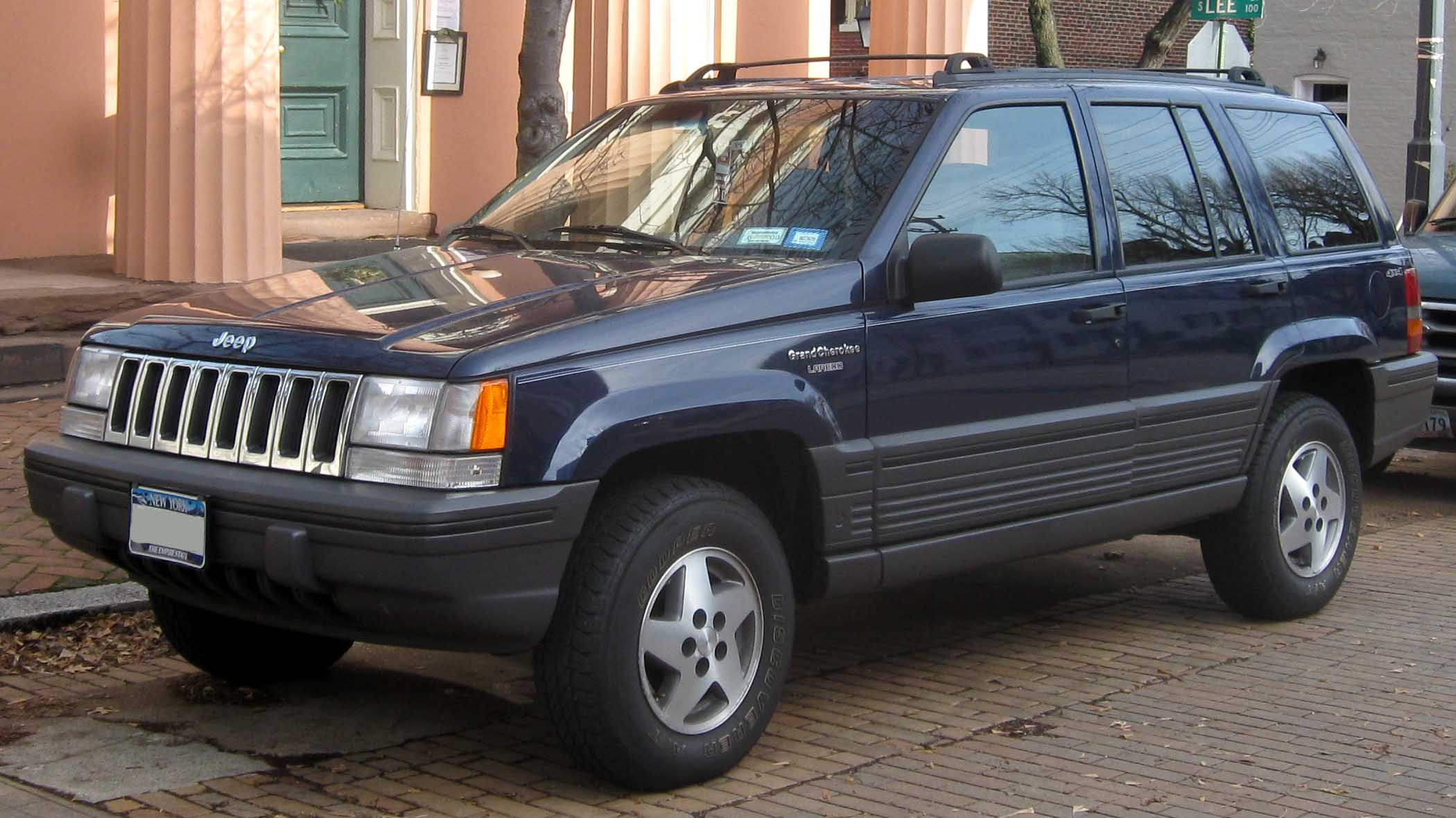 1993-1995 Jeep Grand Cherokee photographed in Alexandria, Virginia, USA.